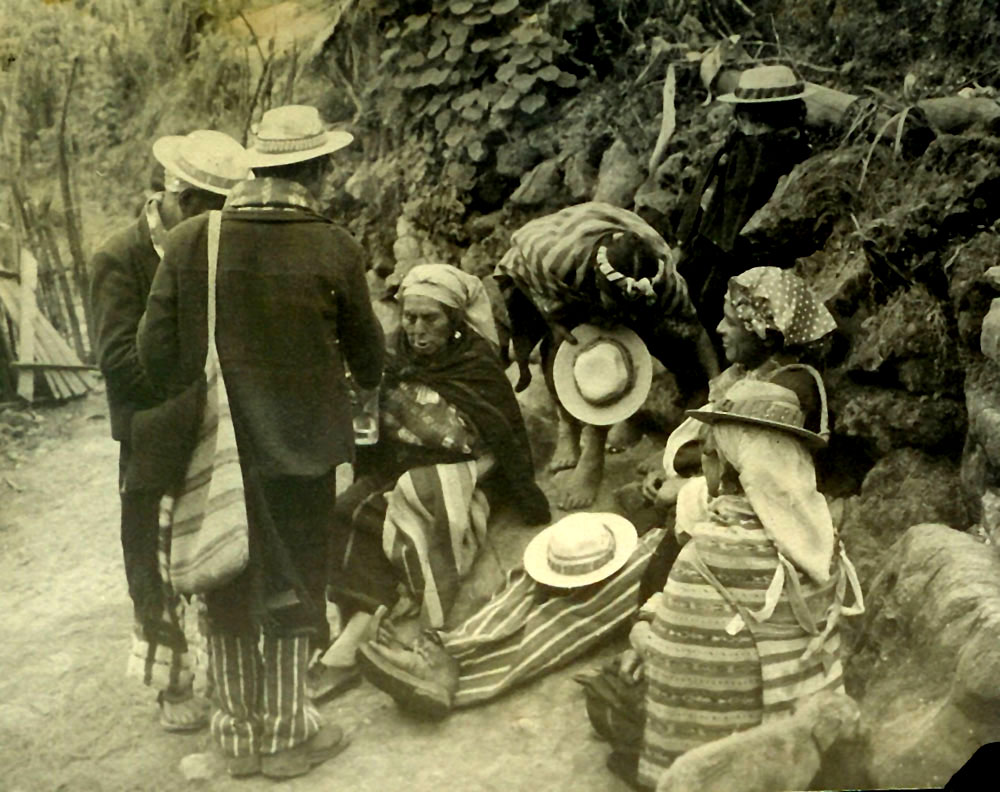 Country Maya people in Guatemala highlands, 1978. Photo by Steve Richard